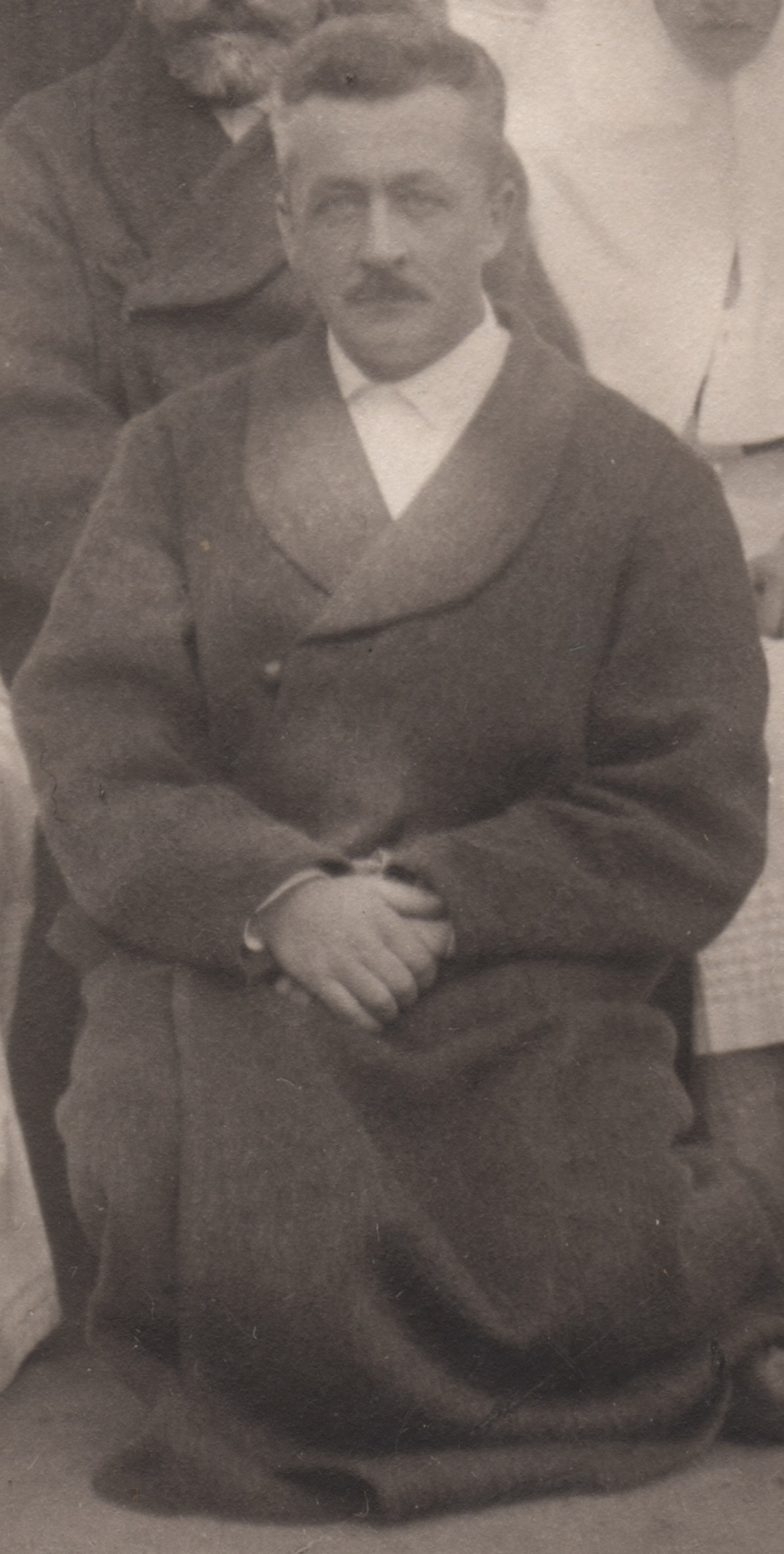 Kobylinsky, Yevgeny Stepanovich.